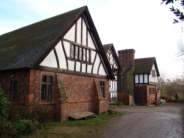 Polesworth Vicarage After the Dissolution the site of Polesworth Abbey passed to Francis Goodere, whose son Sir Henry fashioned a manor-house out of, or on the site of, the Abbess's Lodgings, west of the Abbey cloisters. This mansion was replaced by the vicarage, with material from the manor-house being re-used in it.